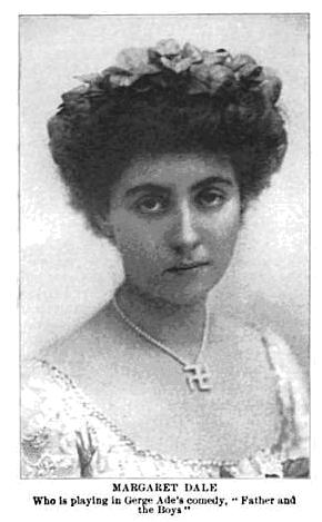 Margaret Dale 1907